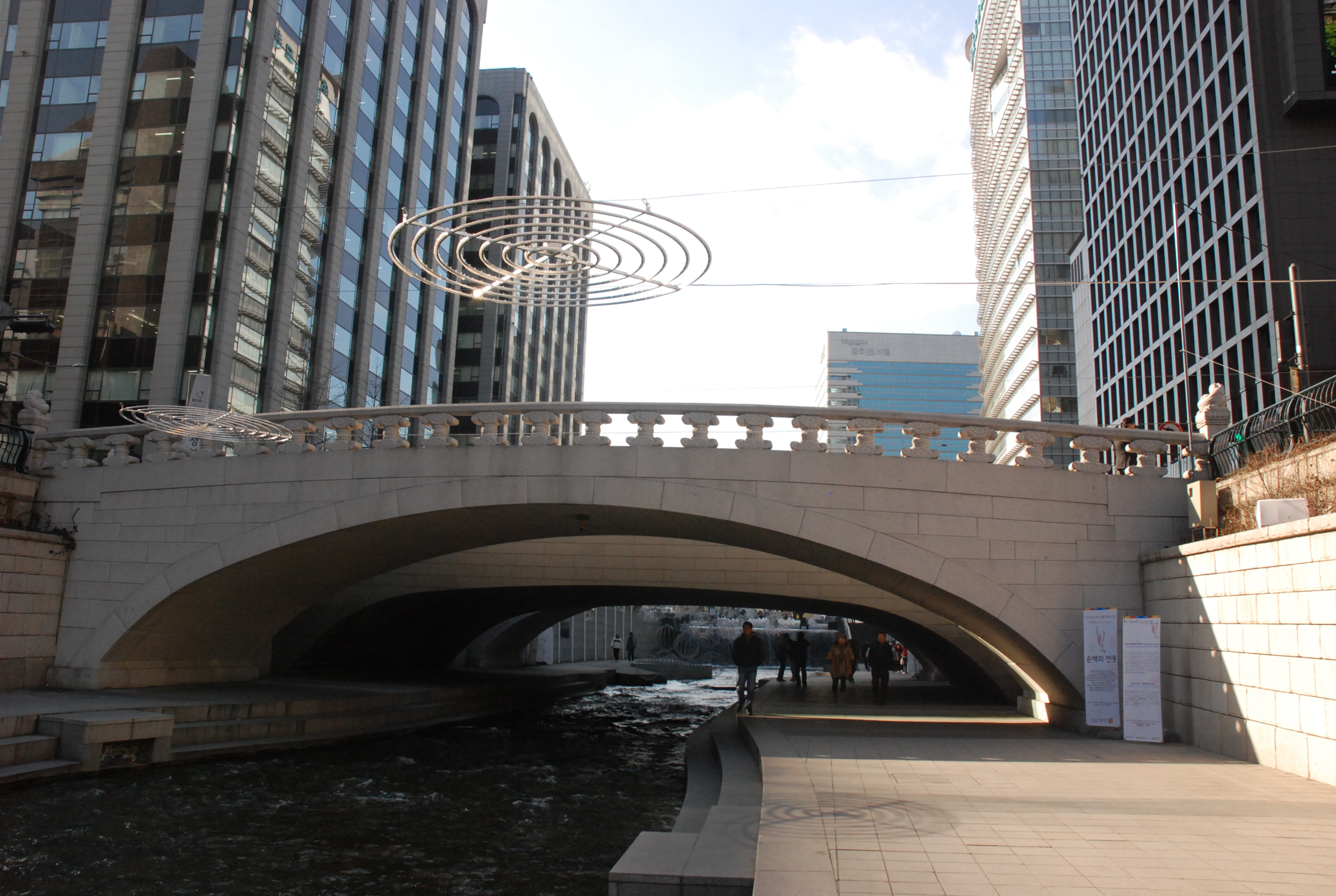 Mojeon Bridge, This bridge is the first one you can find from the entrance of Cheonggyecheon.